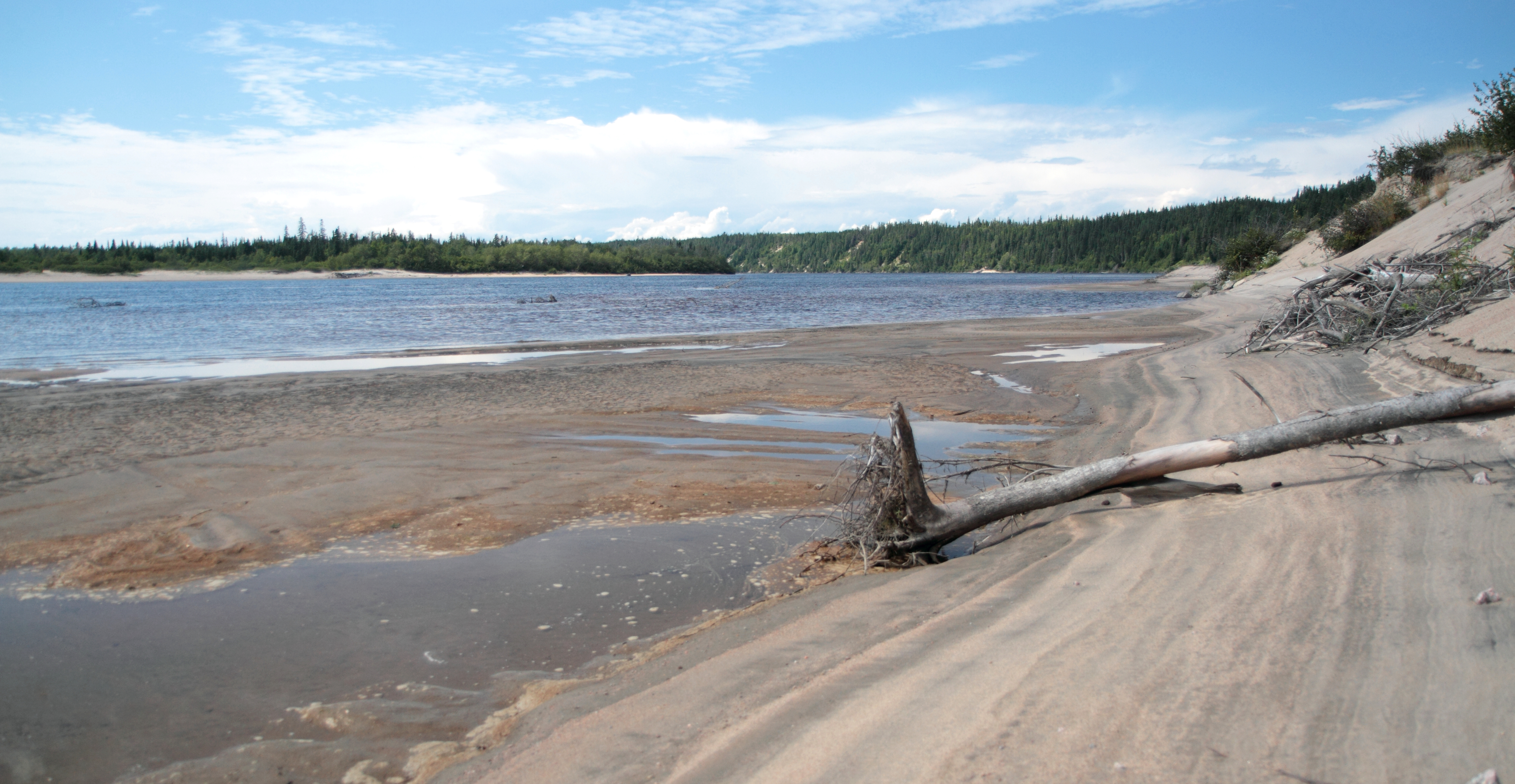 Moisie River, Quebec, Canada